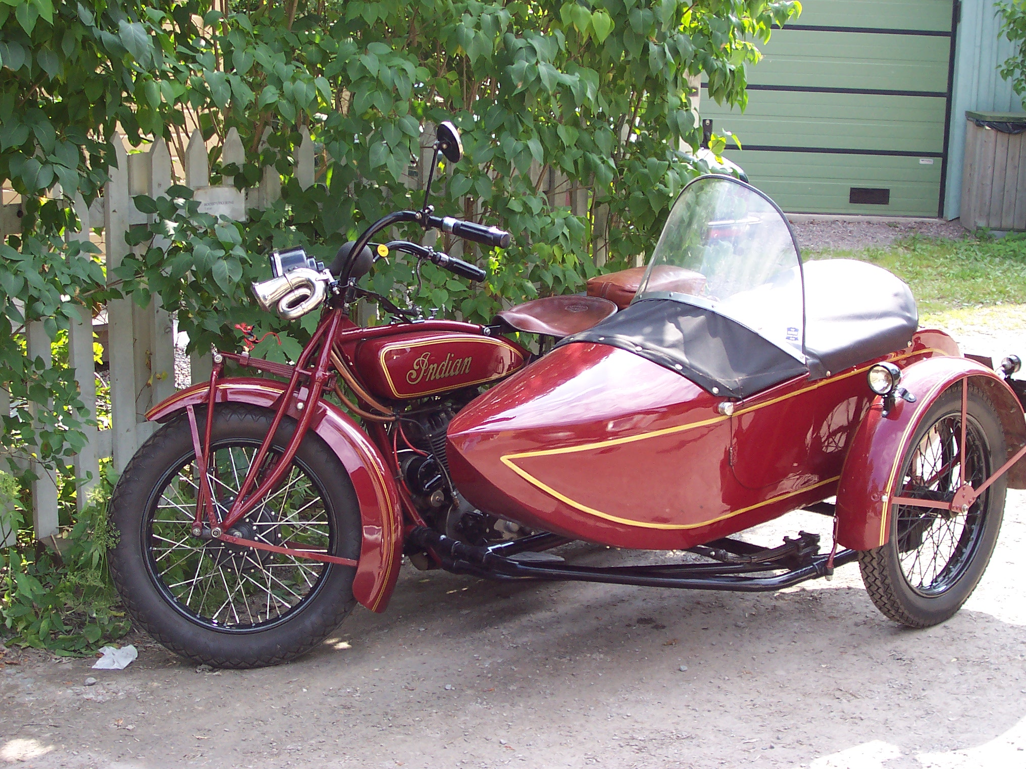 I am the author.